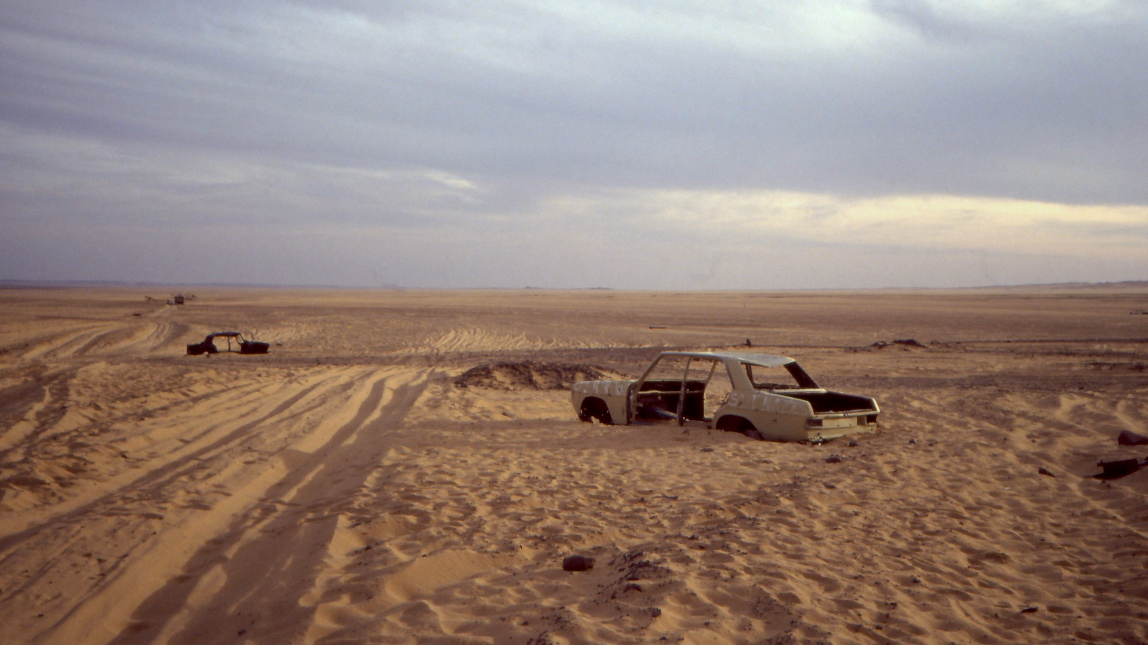 Abandoned verhicles on the Trans-Sahara-Highway (Hoggar route) near the border between Algeria and Niger